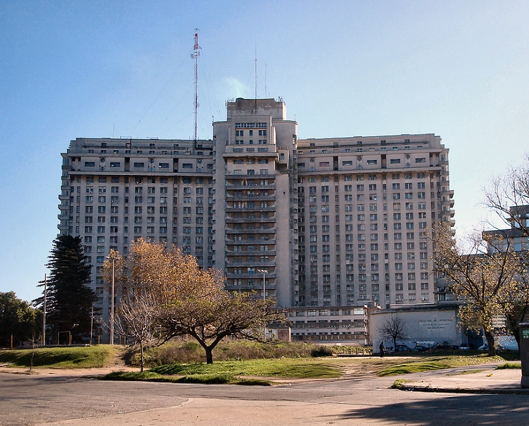 Hospital de Clínicas "Dr. Manuel Quintela", Parque Batlle, Montevideo, Uruguay. Rear view, as seen from the park.